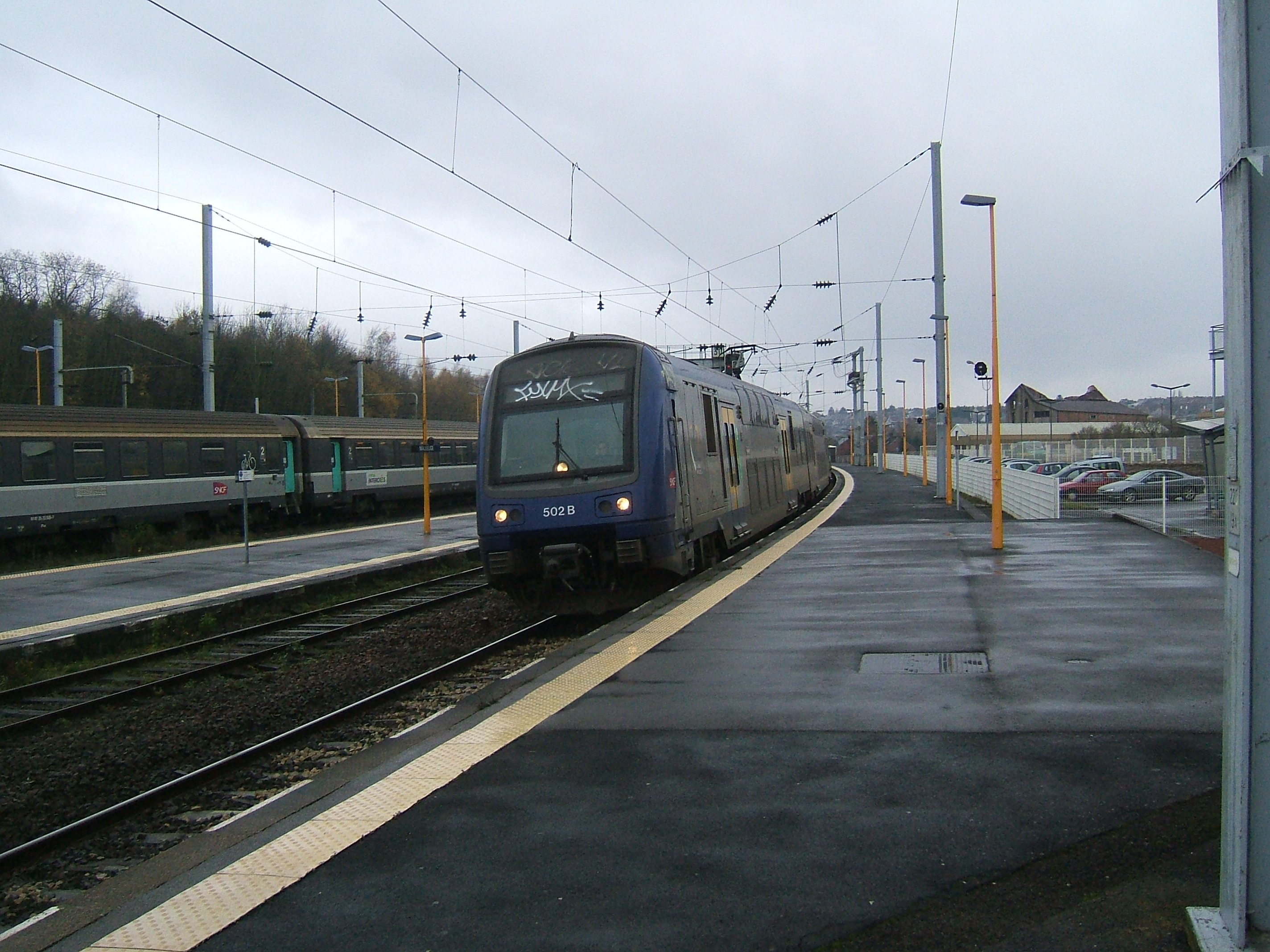 TER emu at Maubeuge station